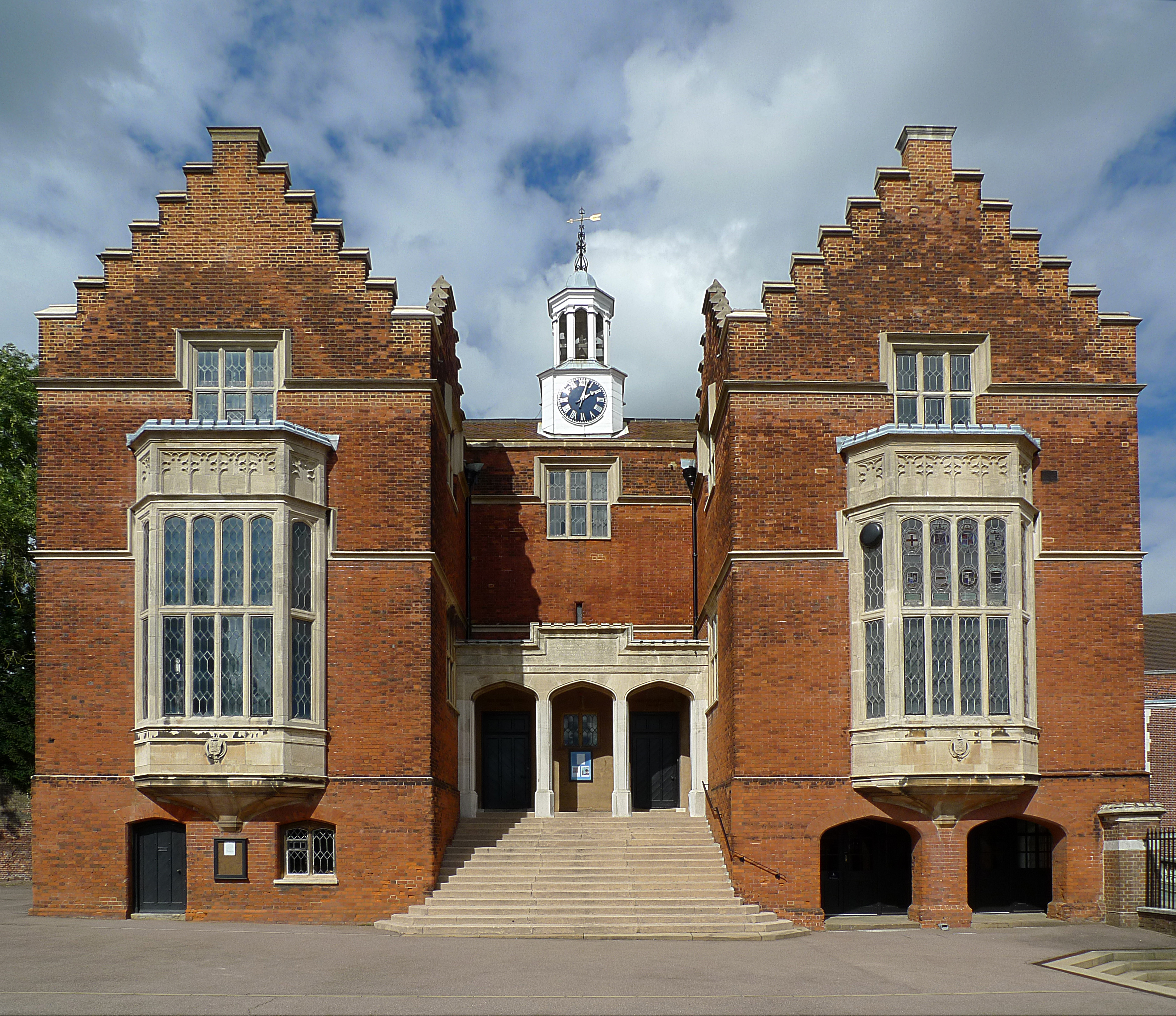 The Old Schools, Harrow School. On the left is the Fourth Form Room; on the right, the Old Speech Room Gallery.